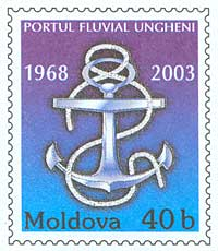 Stamp of Moldova